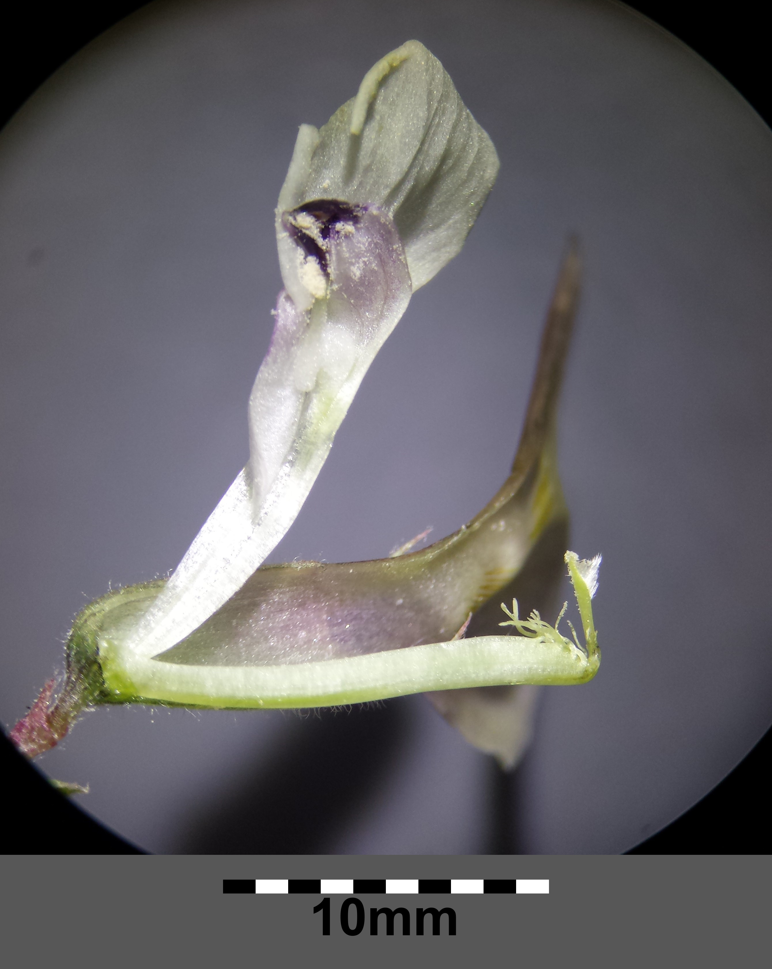 Flower, opened Taxonym: Vicia grandiflora "subsp." sordida ss Fischer et al. EfÖLS 2008 ISBN 978-3-85474-187-9 Location: abandoned marshalling-yard Breitenlee, Vienna-Donaustadt - ca. 160 m a.s.l. Habitat: semi-dry grassland